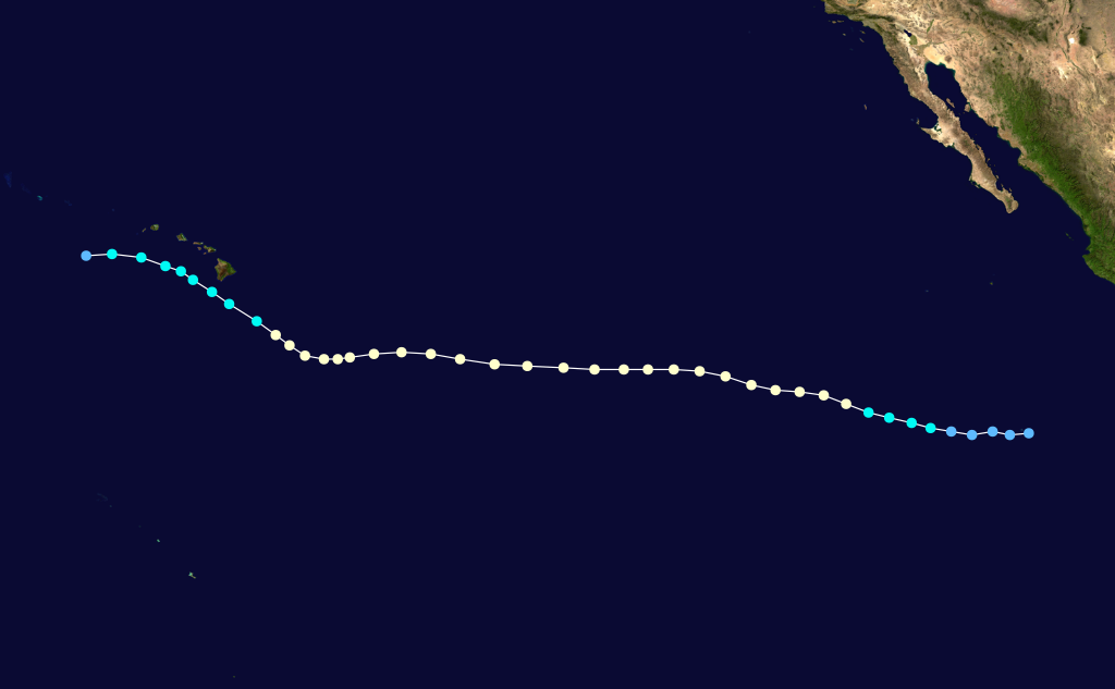 Hurricane Dalila (1989) track. Uses the color scheme from the Saffir-Simpson Hurricane Scale.